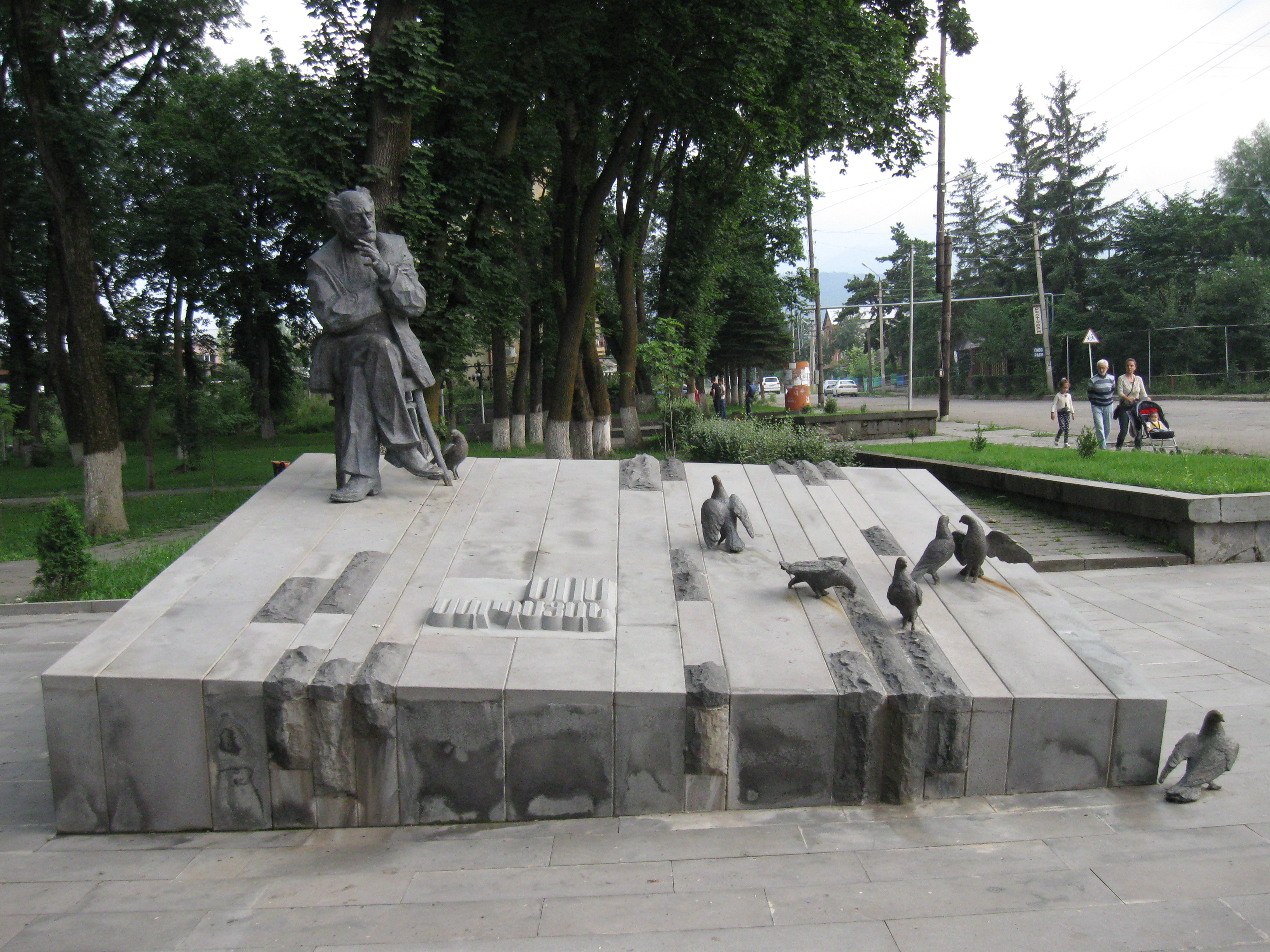 Monument of Sos Sargsyan in the city of Stepanavan, Lori Province.